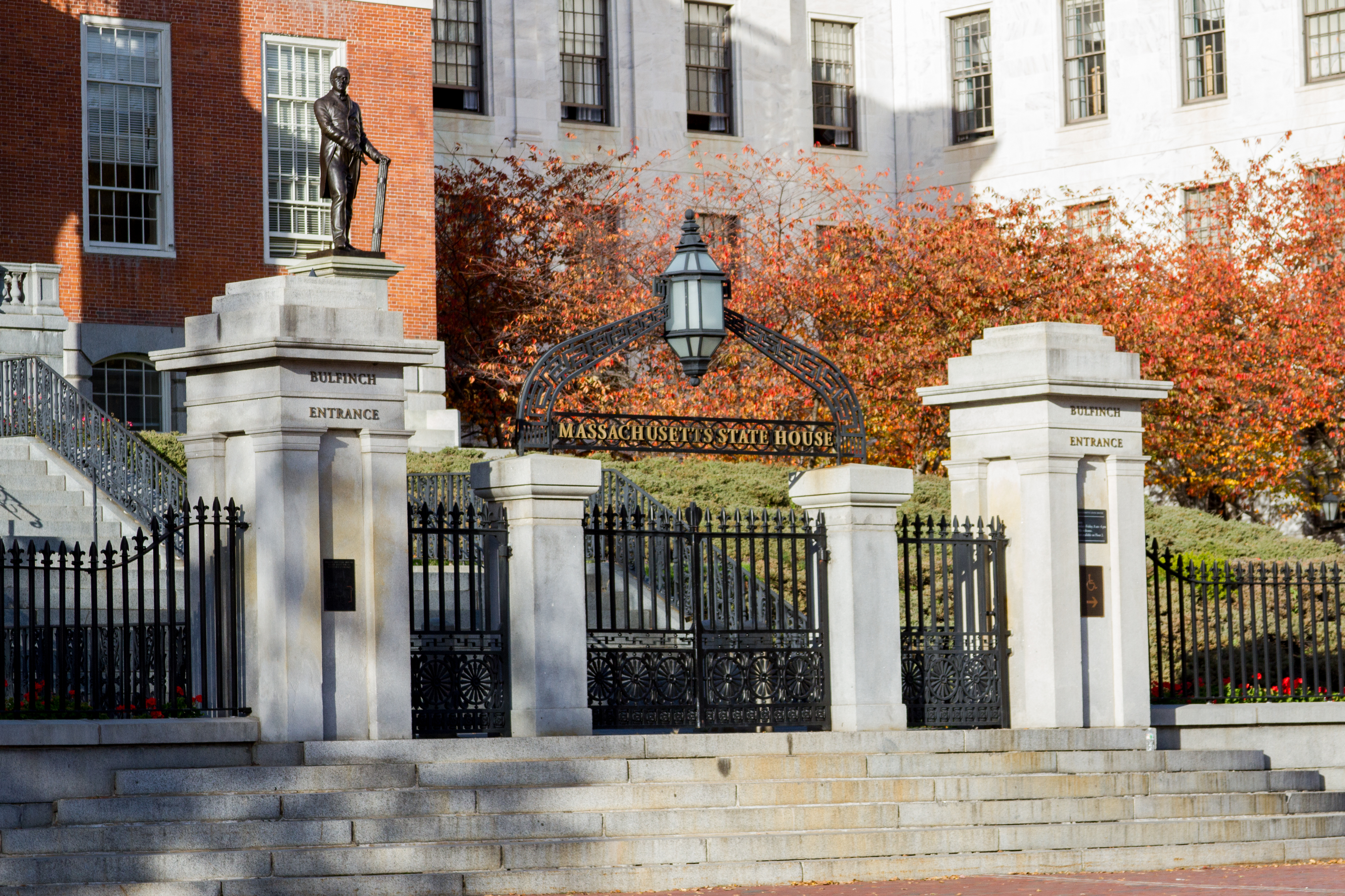 The front gate at the Massachusetts State House in Boston, Massachusetts, as viewed on Beacon Street.